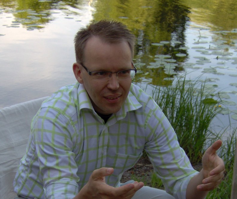 Lars Aronsson at a wiki-grill at Reimersholme.